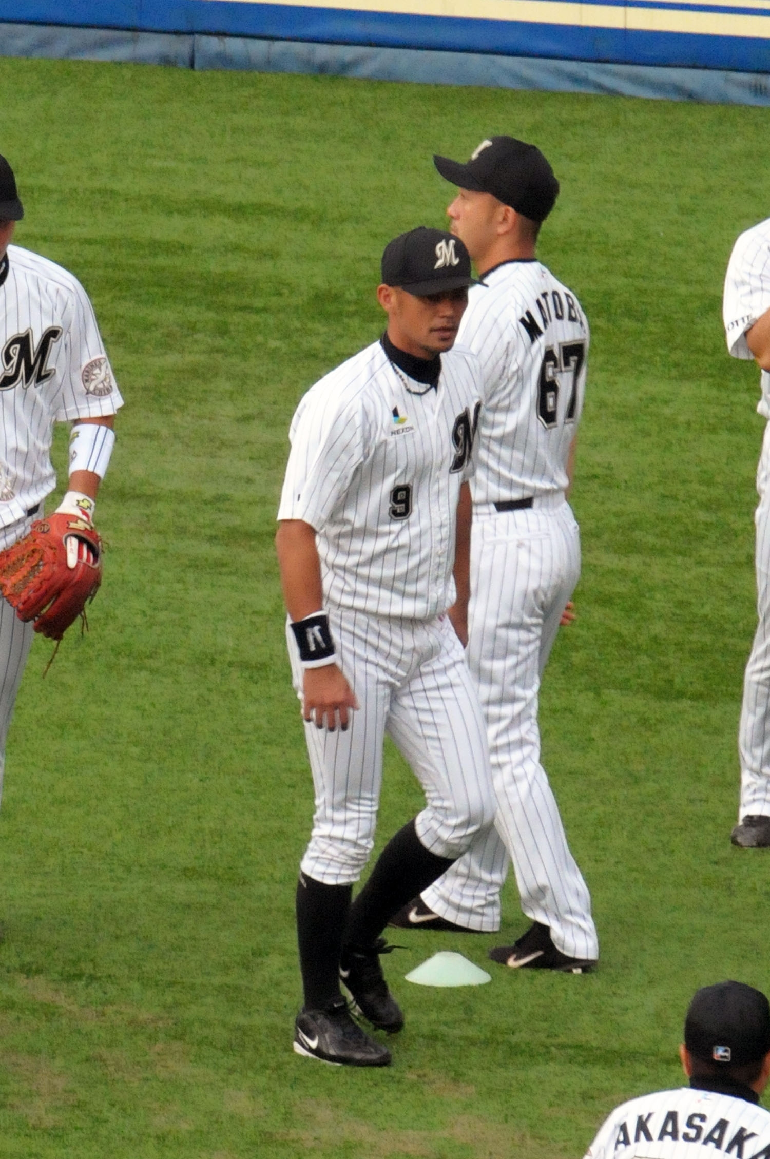 Kazuya Fukuura, infielder of the Chiba Lotte Marines, at Chiba Marine Stadium.